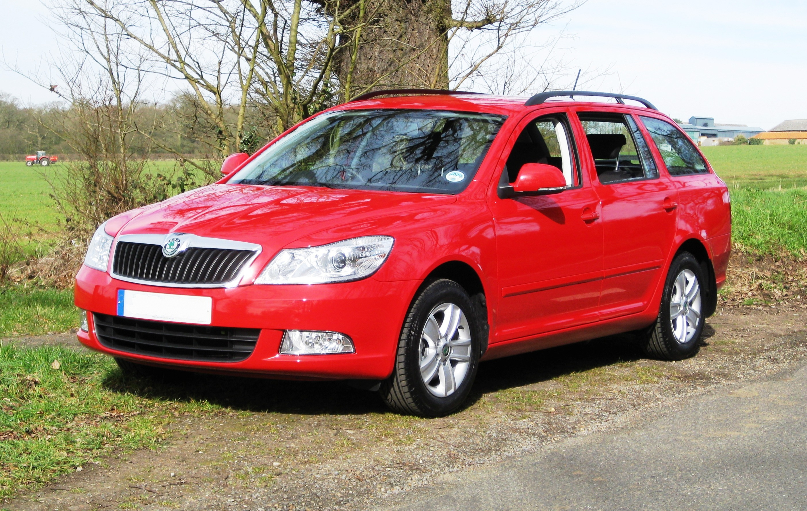 Skoda Octavia 1.6 TDI Kombi in Essex